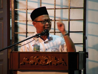 Mohd Shamsufin Lias, Sungai Burong Constituency.